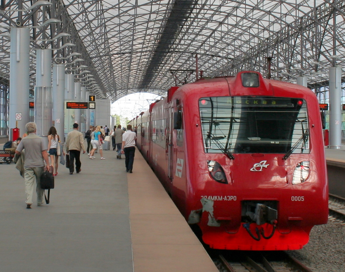 Sheremetyevo Airport of Moscow. Aeroexpress Terminal. The platforms.